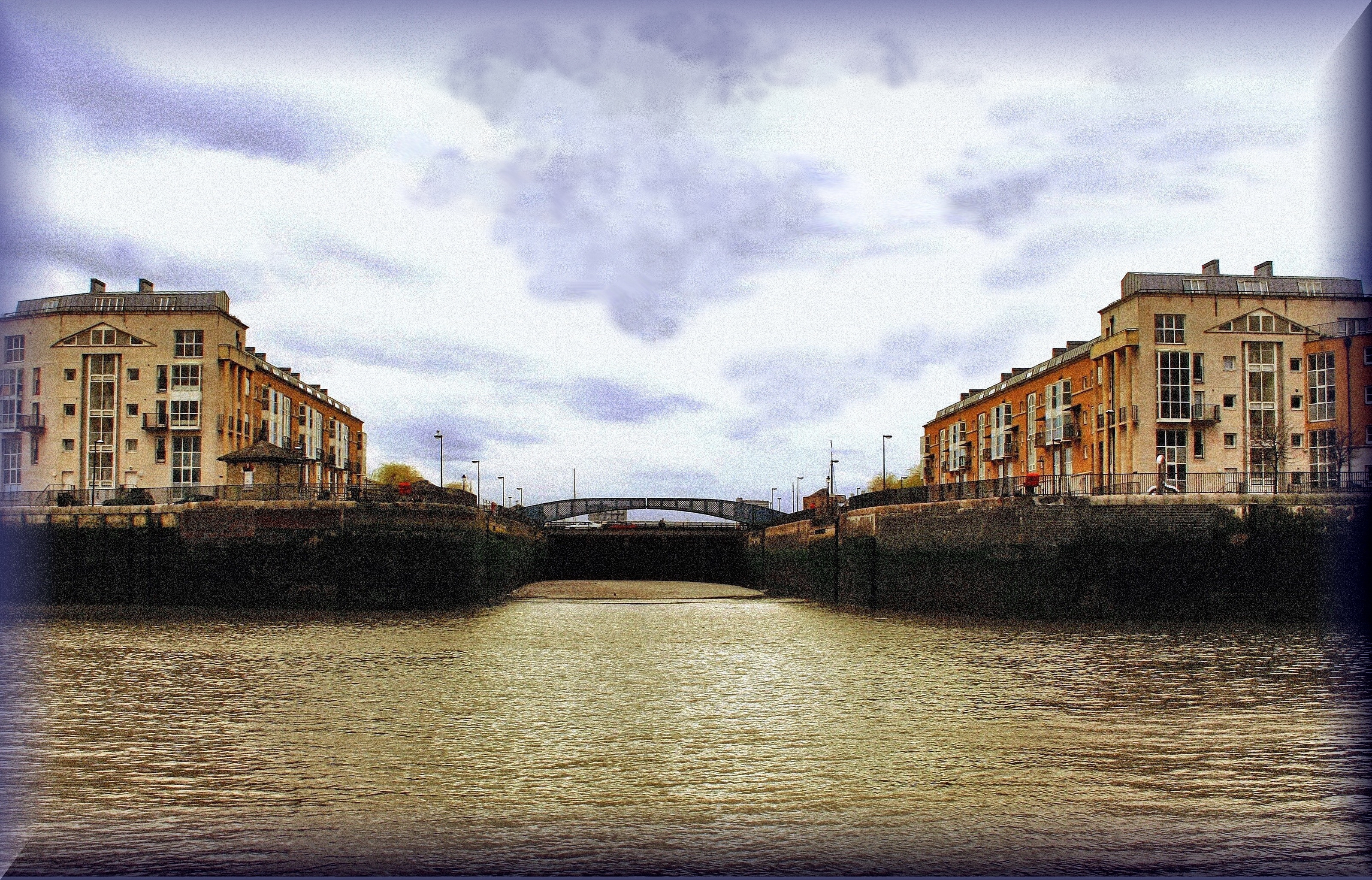 One end of Greenland Dock and surrounding apartments at Rotherhithe viewed from the Thames, London, UK with its iconic swing footbridge which swings open as the name suggests using a visible hydraulic mechanism.